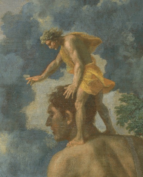 Title: Paysage avec Orion aveugle cherchant le soleil (detail) Known in English as: Landscape with Orion or Blind Orion Searching for the Rising Sun (detail) A painting of the mythological Orion. oil on canvasmedium QS:P186,Q296955;P186,Q12321255,P518,Q861259; original work: 46 7/8 × 72 in. (119.1 × 182.9 cm)